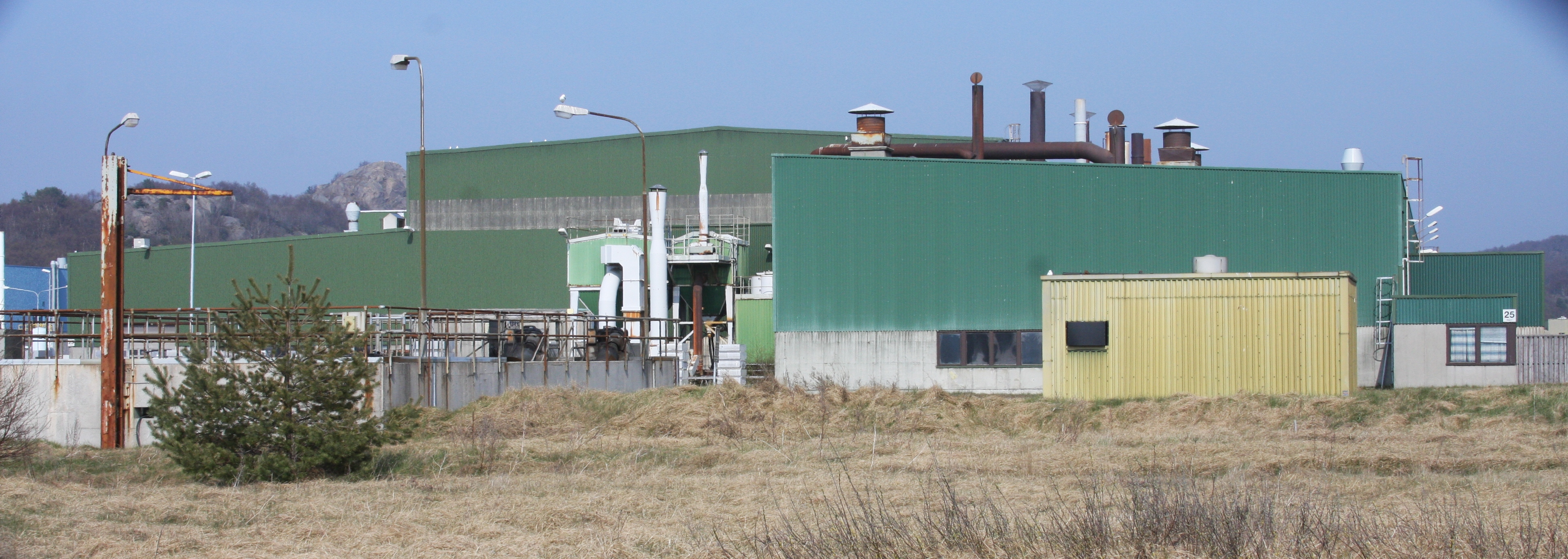 Lista Aluminium Plant, Farsund (Norway). This is a 90.000 tons capacity facitlity in southern Norway, operated by Alcoa.